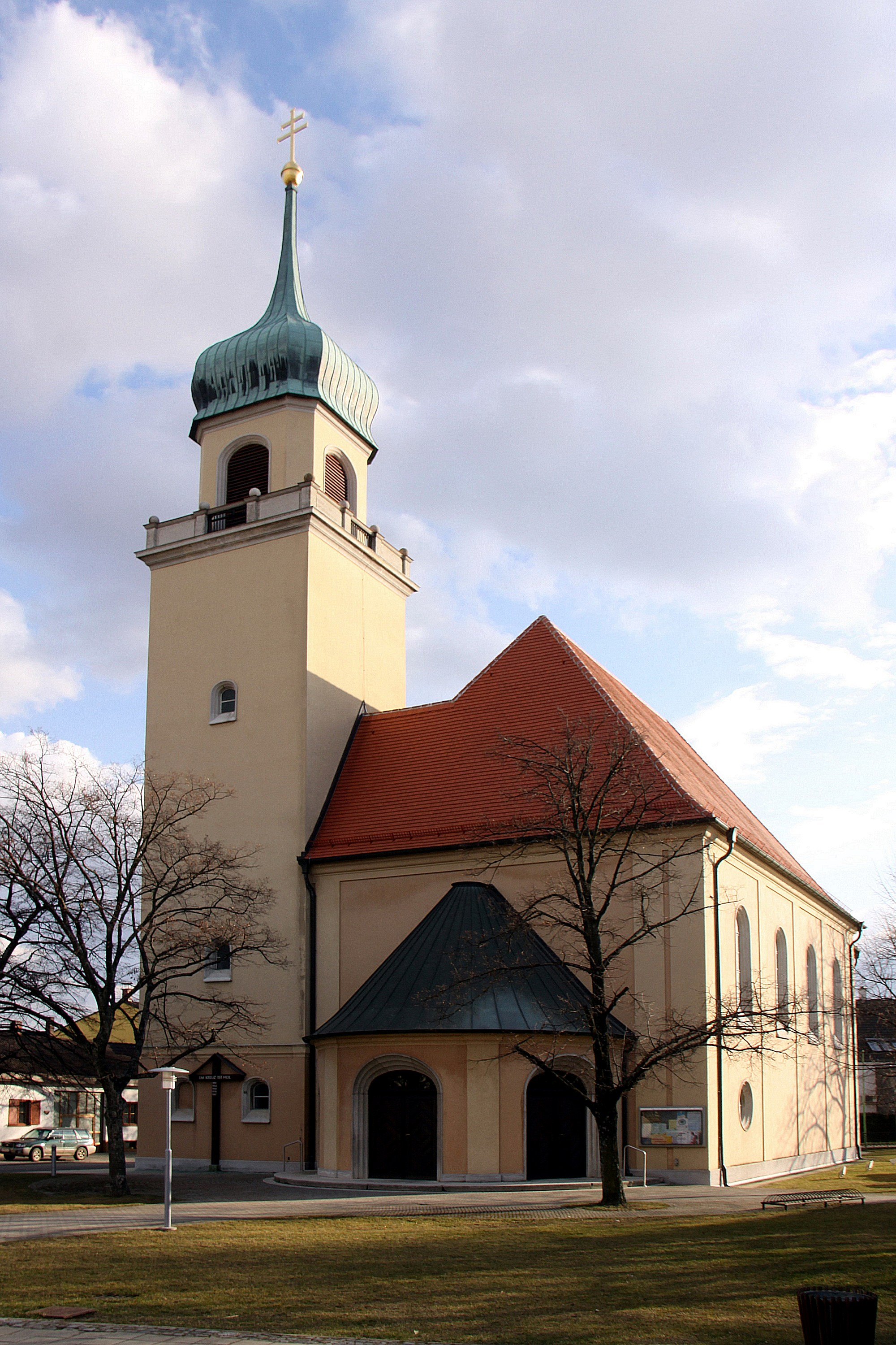 Horitschon - Parish Church of St. Margaretha